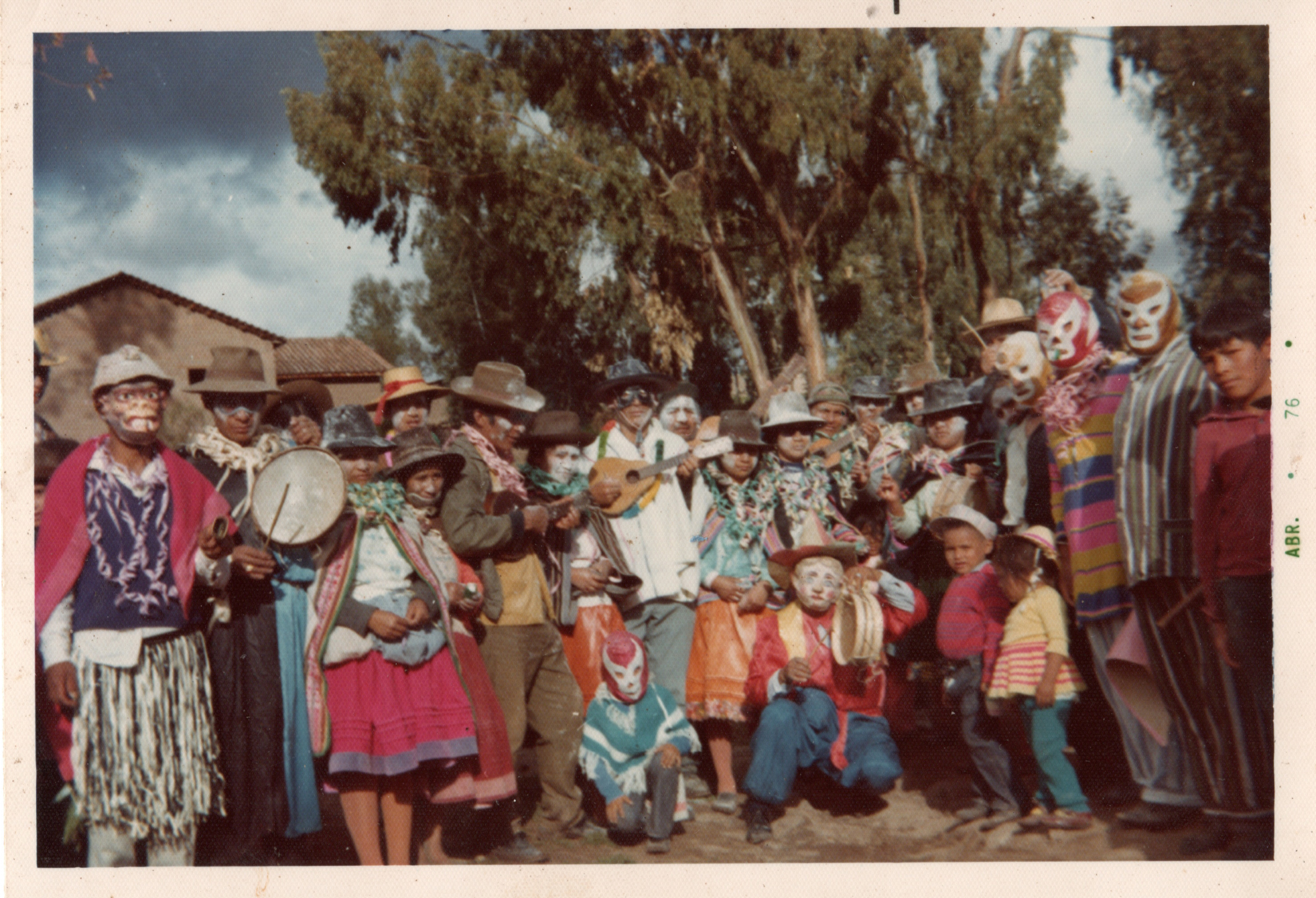 En miercoles de ceniza, muchos lugareños de Huamanguilla siempre se juntaban para realizar el paseo por las diferentes caminos del pueblo vivando y cantando hermosas melodías